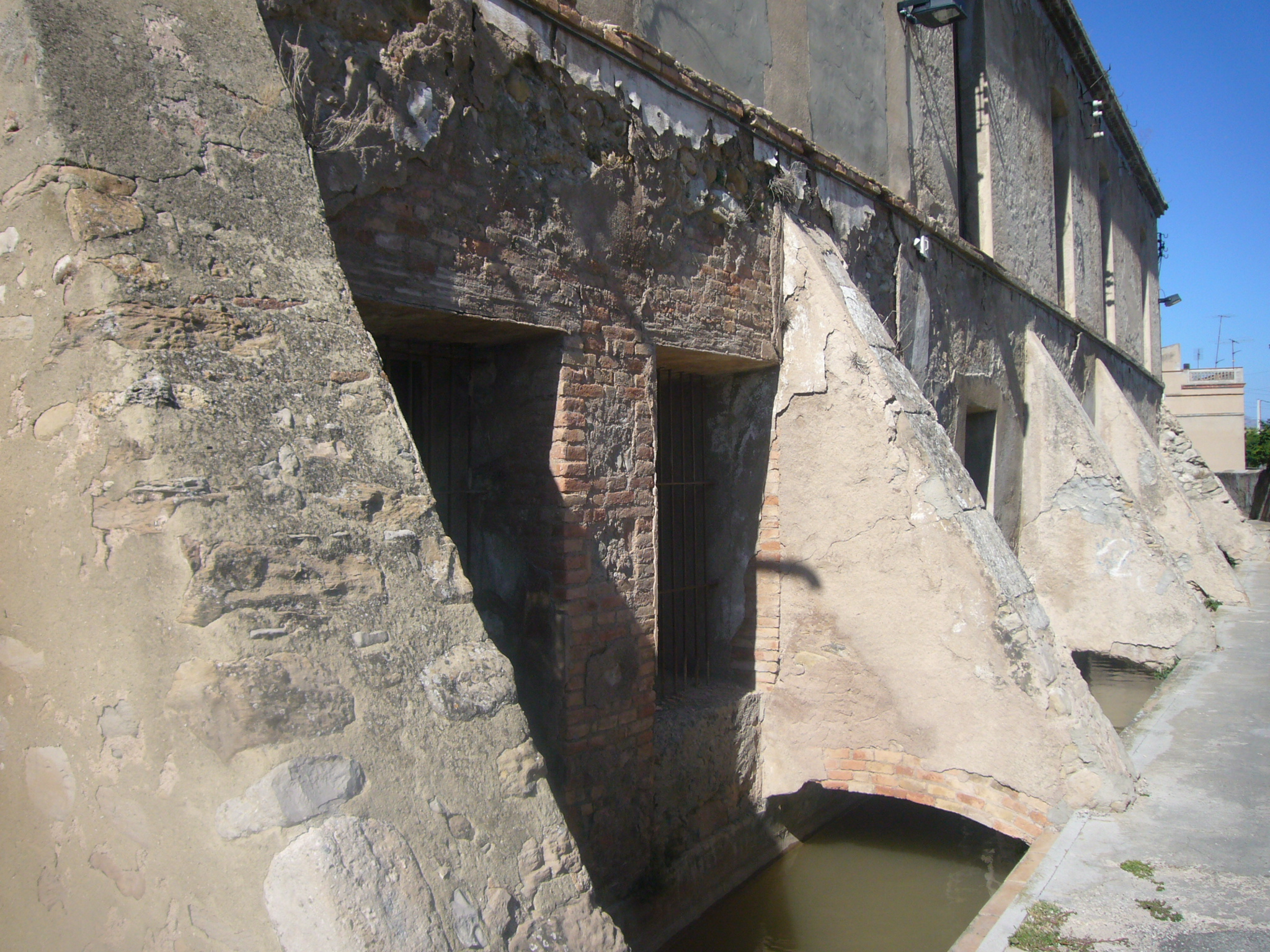 Igualada leather museum. Cal granotes tannery. Rear wall.